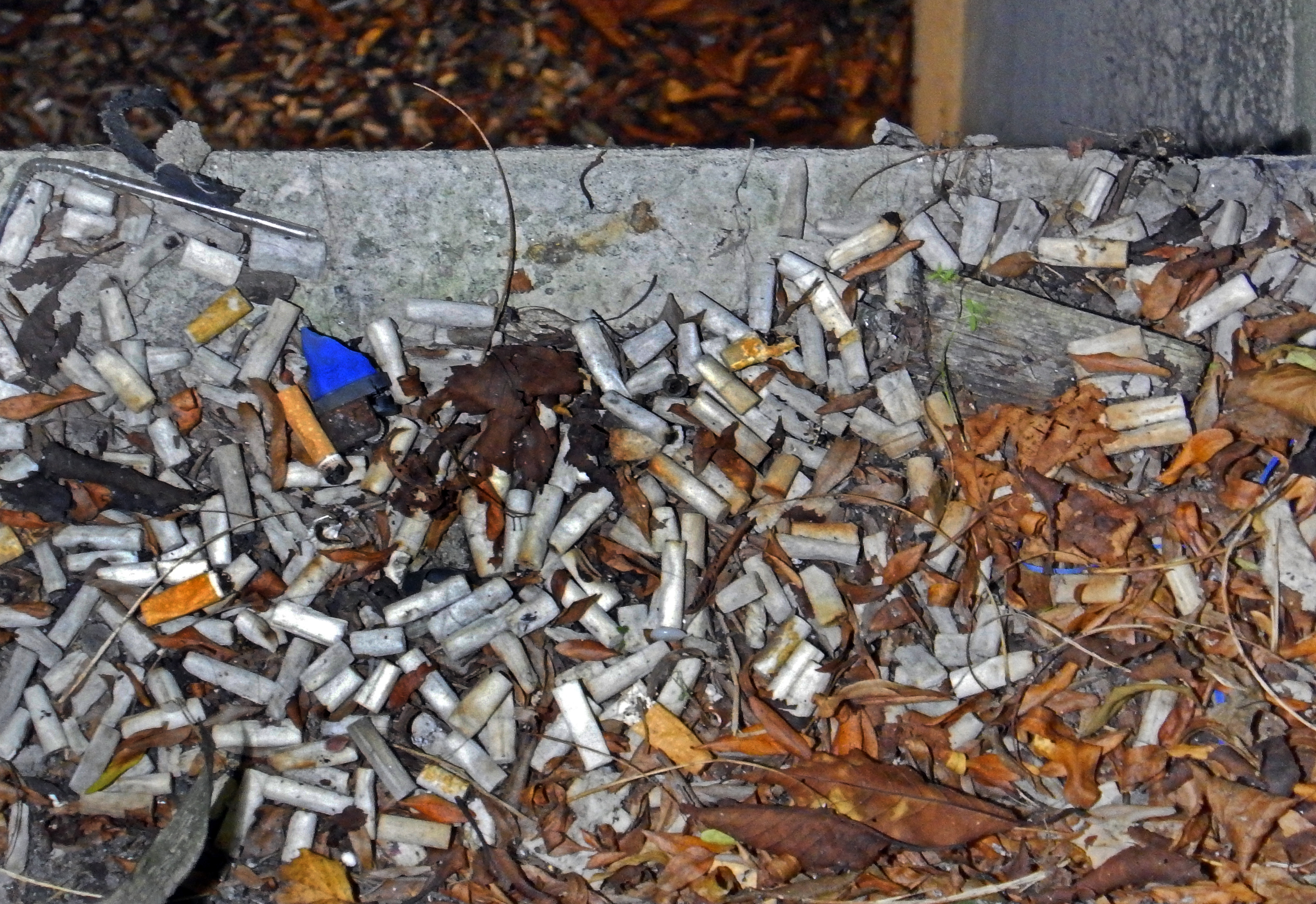 cigarettes butts in a sump covered by a grid just near an office building wall (built a few years earlier). For the older cigarette butts, the paper has biodegraded, but not the filter. Photos taken in Lille, in the north of France.